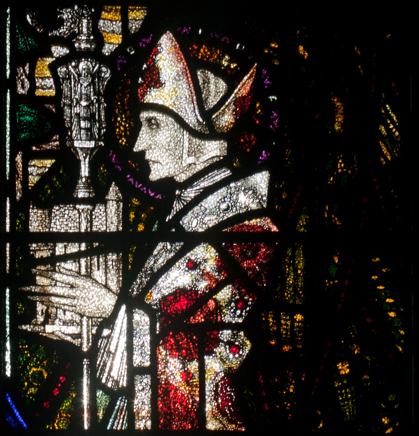 Detail of the right light of the stained glass window titled The Madonna with Sts Aidan and Adrian by Harry Clarke (1889–1931), depicting the Saint Aidán. Harry Clarke (1889–1931) Alternative names Henry Patrick ClarkeDescriptionBritish artistDate of birth/death 17 March 1889 6 January 1931 Location of birth/death Dublin ChurAuthority control : Q981851 VIAF: 64809213 ISNI: 0000 0000 7729 3084 ULAN: 500005071 LCCN: n80127749 NLA: 35207551 WorldCat creator QS:P170,Q981851